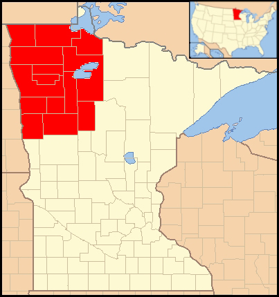 Map of the Catholic diocese of Crookston in the USA.